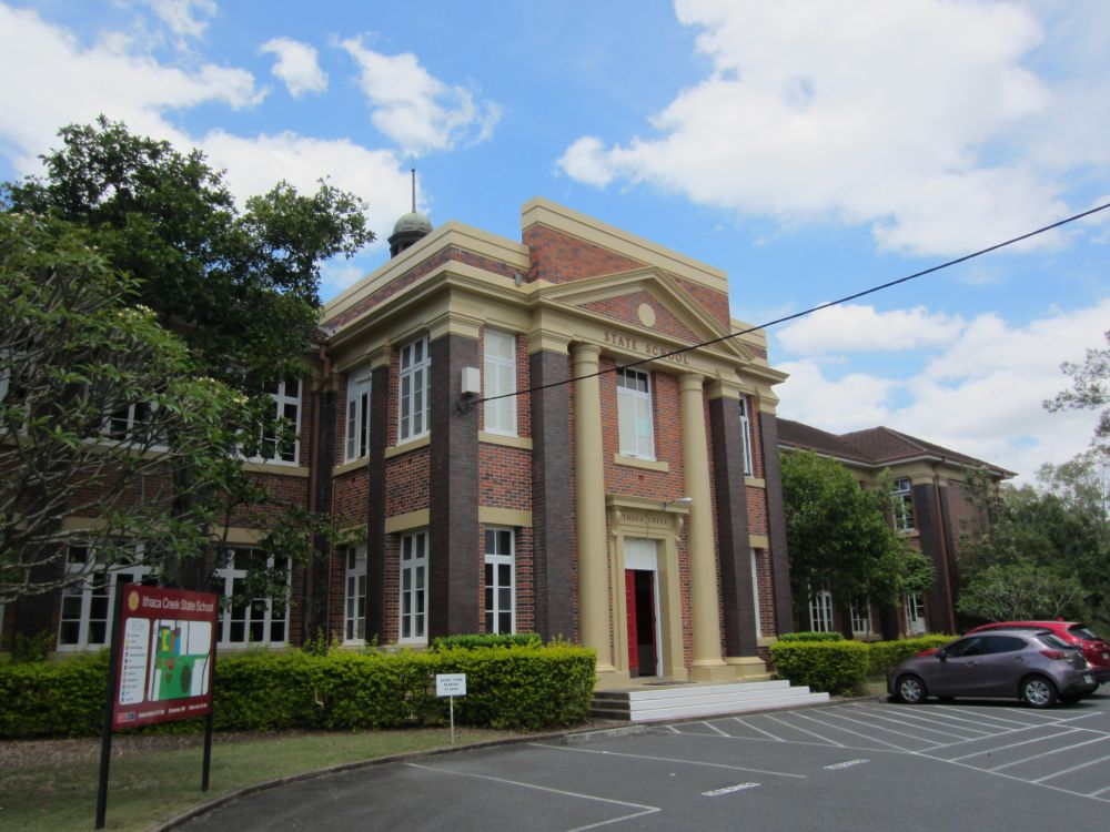 Depression-era Brick School Building (Block A) front entrance, from NW (2015)